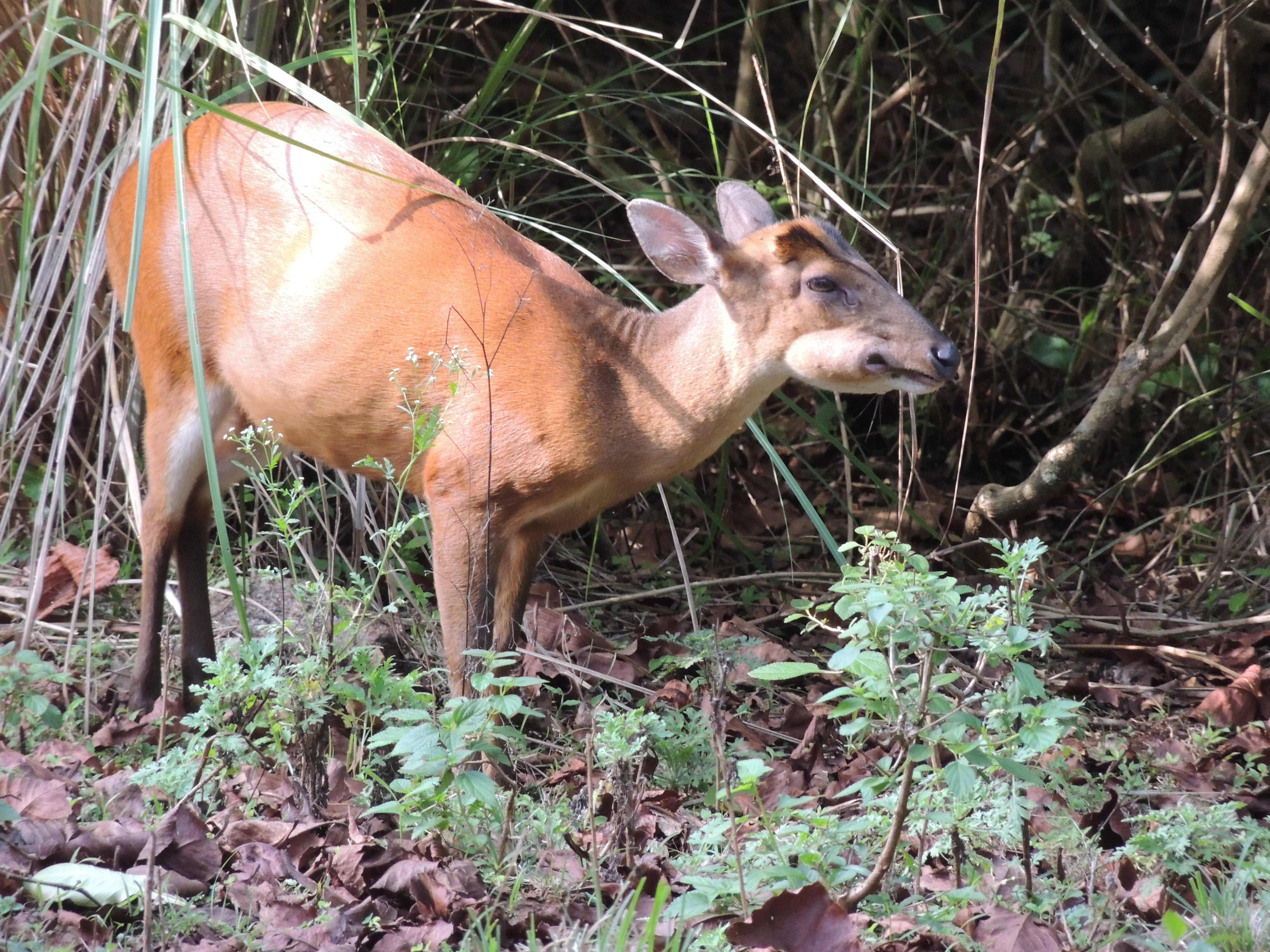 Barking deer female chewing a Careya arborea fruit, India